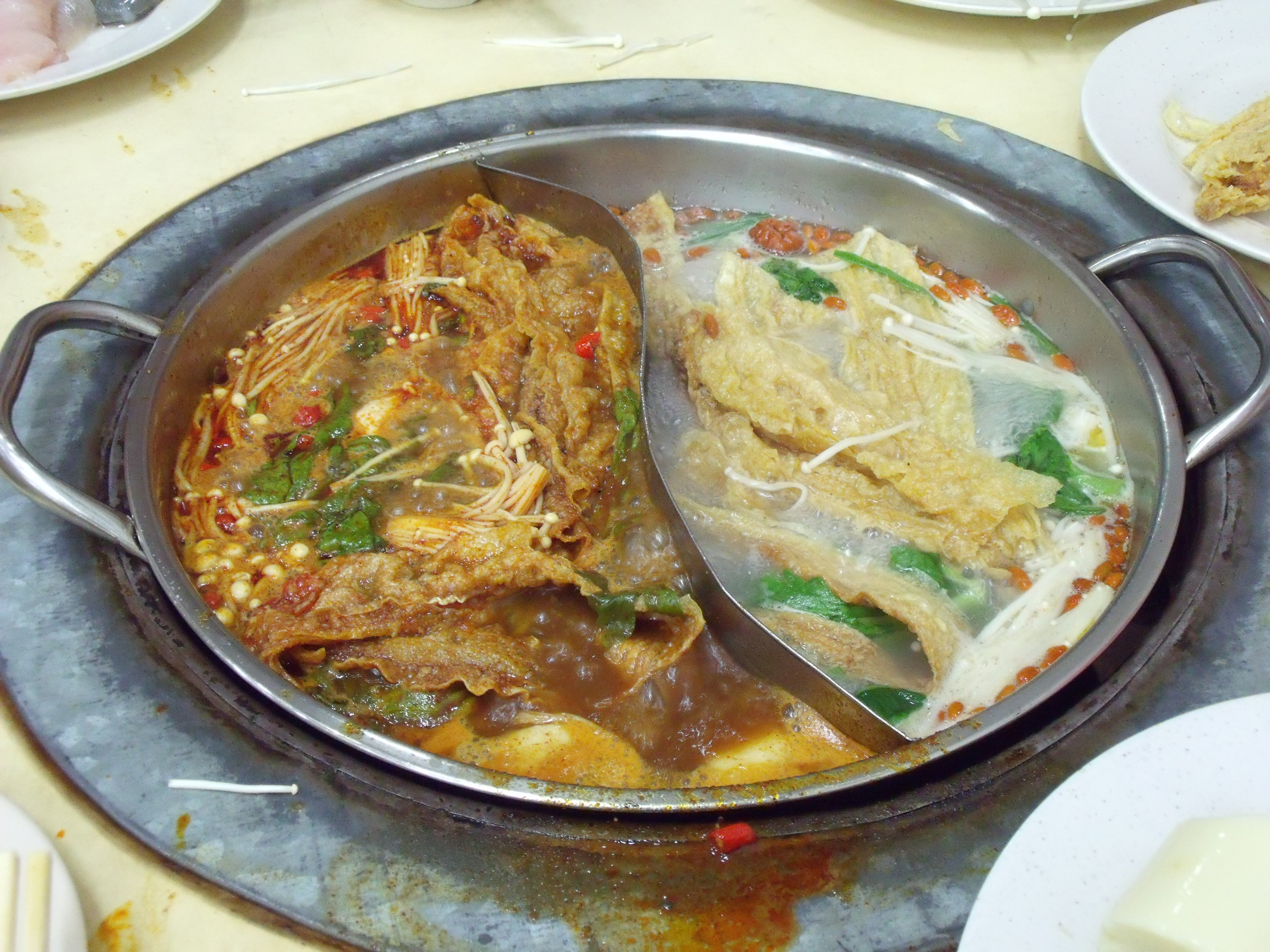 Picture of my steamboat dinner at Chinatown, Singapore